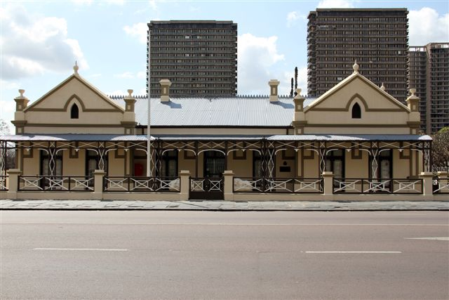 This media shows a South African Protected Site with SAHRA file reference 9/2/258/0010.